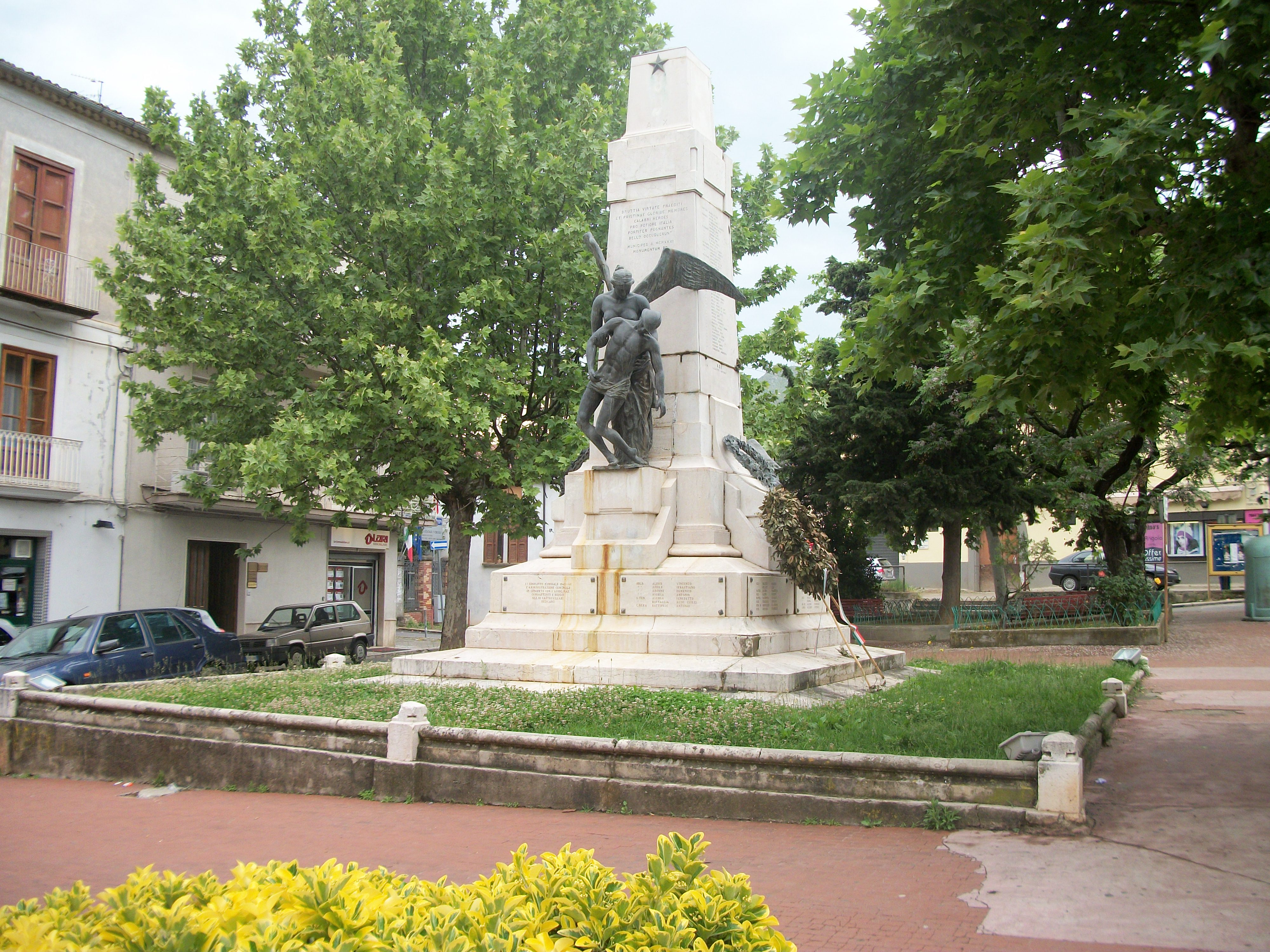 War memorial, Piazza Indipendenza in Castrovillari